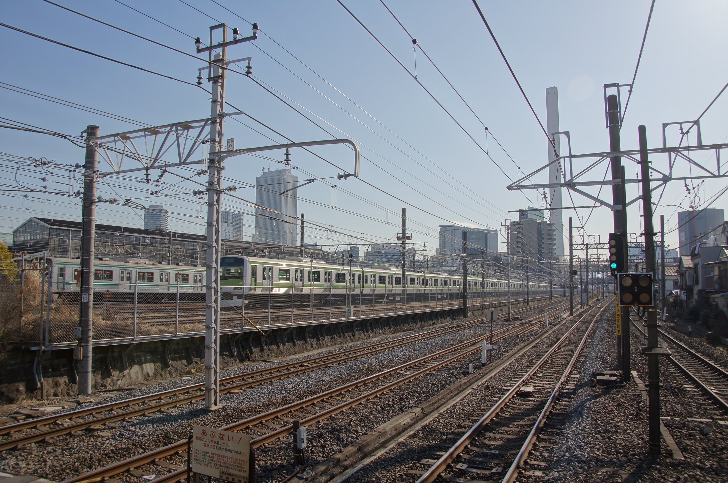 View of the JR East Ikebukuro stabling depot viewed from the platform of Kita-Ikebukuro Station on the Tobu Tojo Line